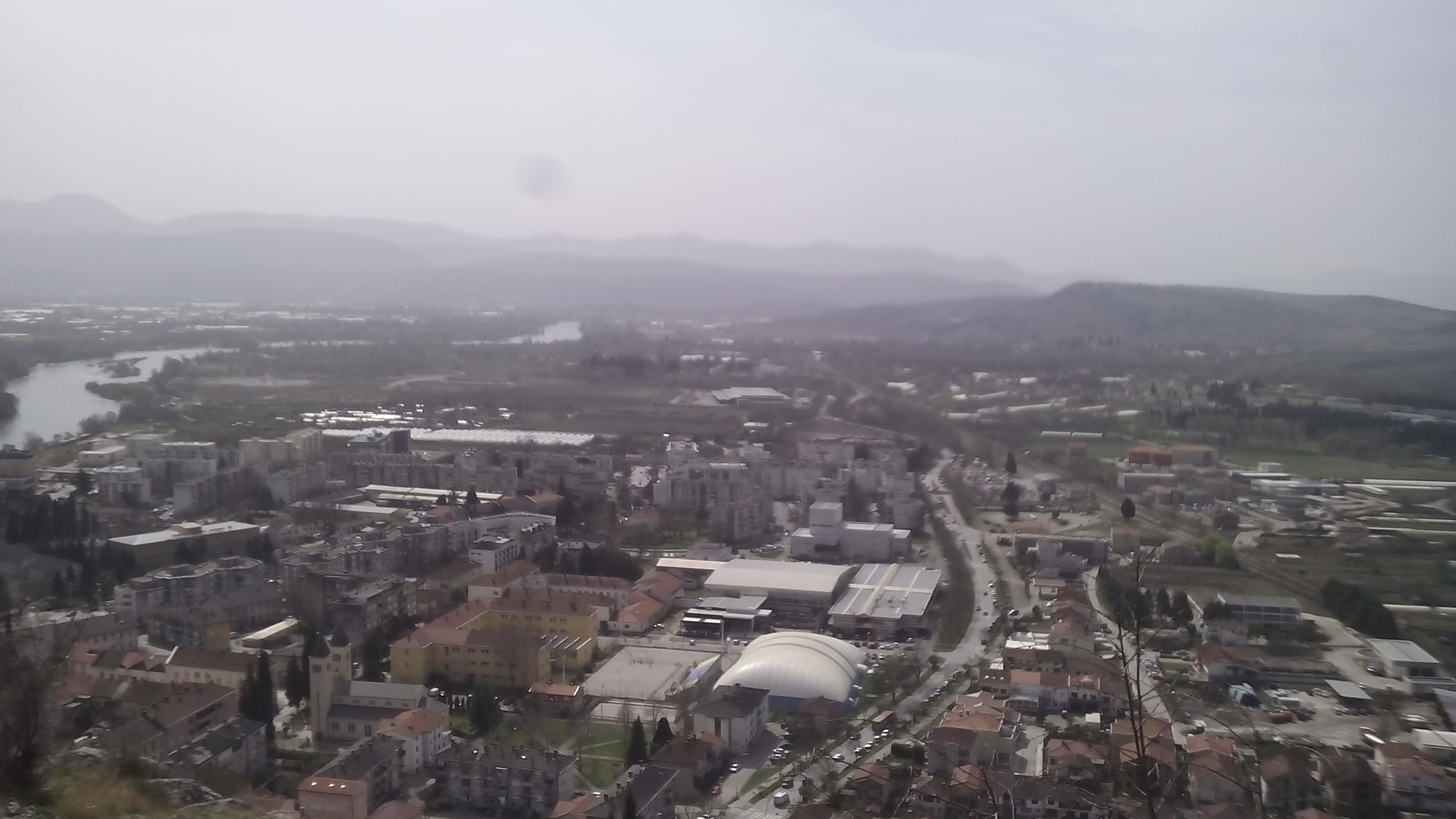 Panorama photo of Čapljina